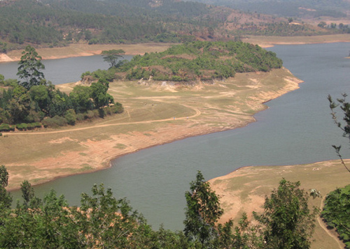 Anayirankal Dam Upper View